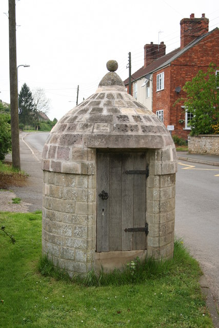 Lockup. Digby village lockup, a bit cosy if required to accommodate more than one miscreant at a time